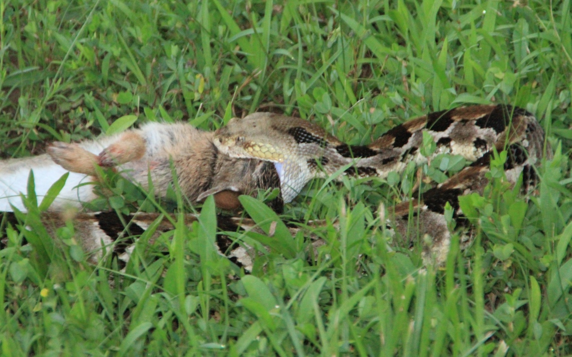 Timber Rattle Snake with Rabbit Prey